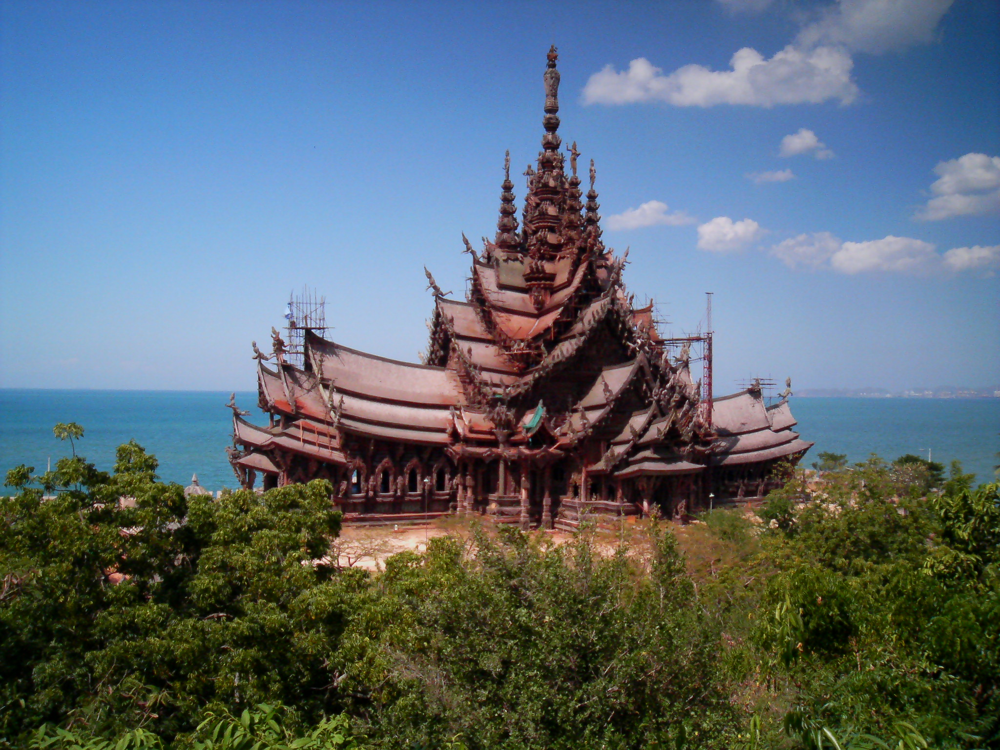 Description= The Sanctury of Truth, Thailand. Source = self-made Date = December 2007 Author = Brenden Brain copyright 2007